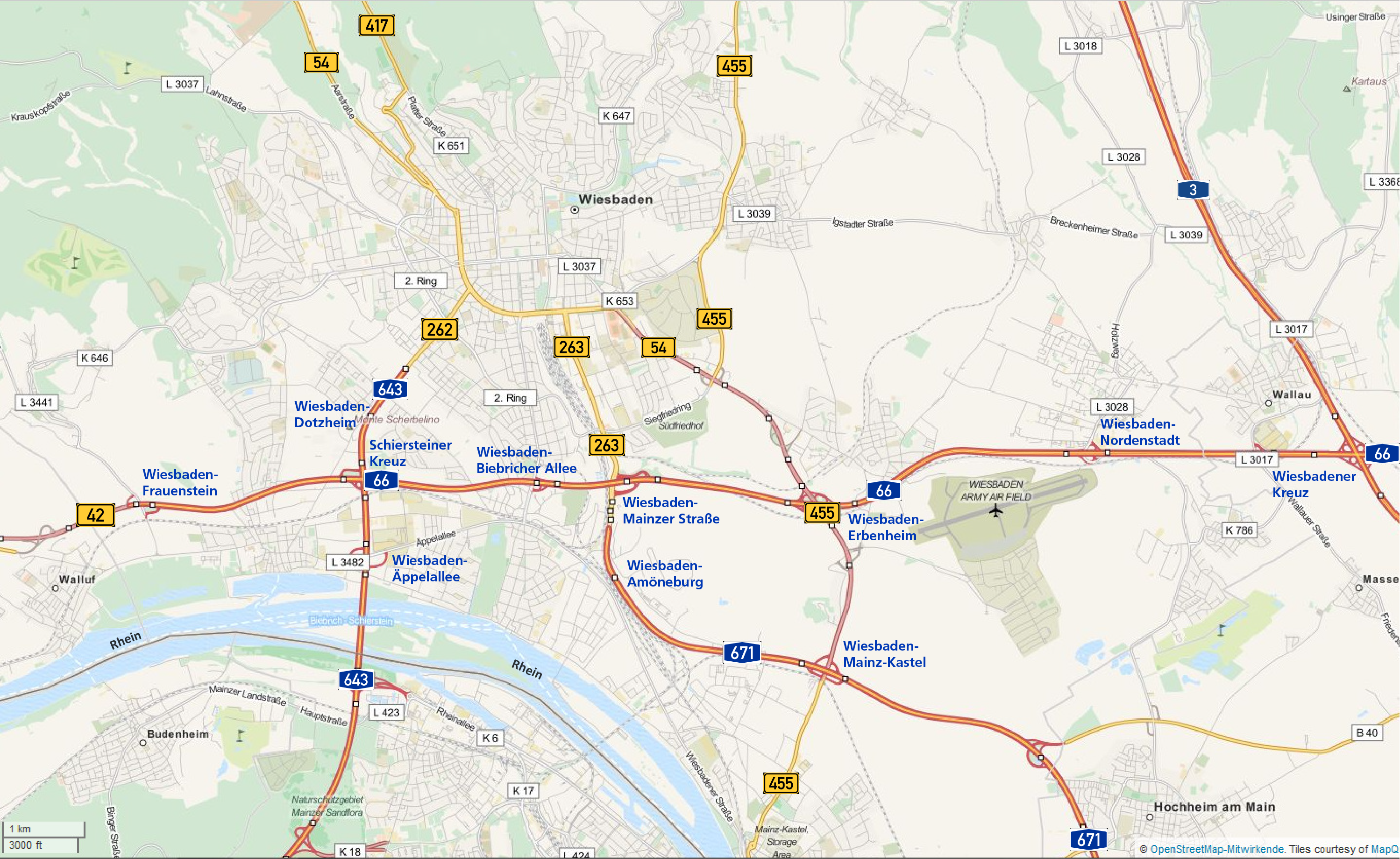 Autobahn and federals roads in Wiesbaden This map may be incomplete, and may contain errors. Don't rely solely on it for navigation.